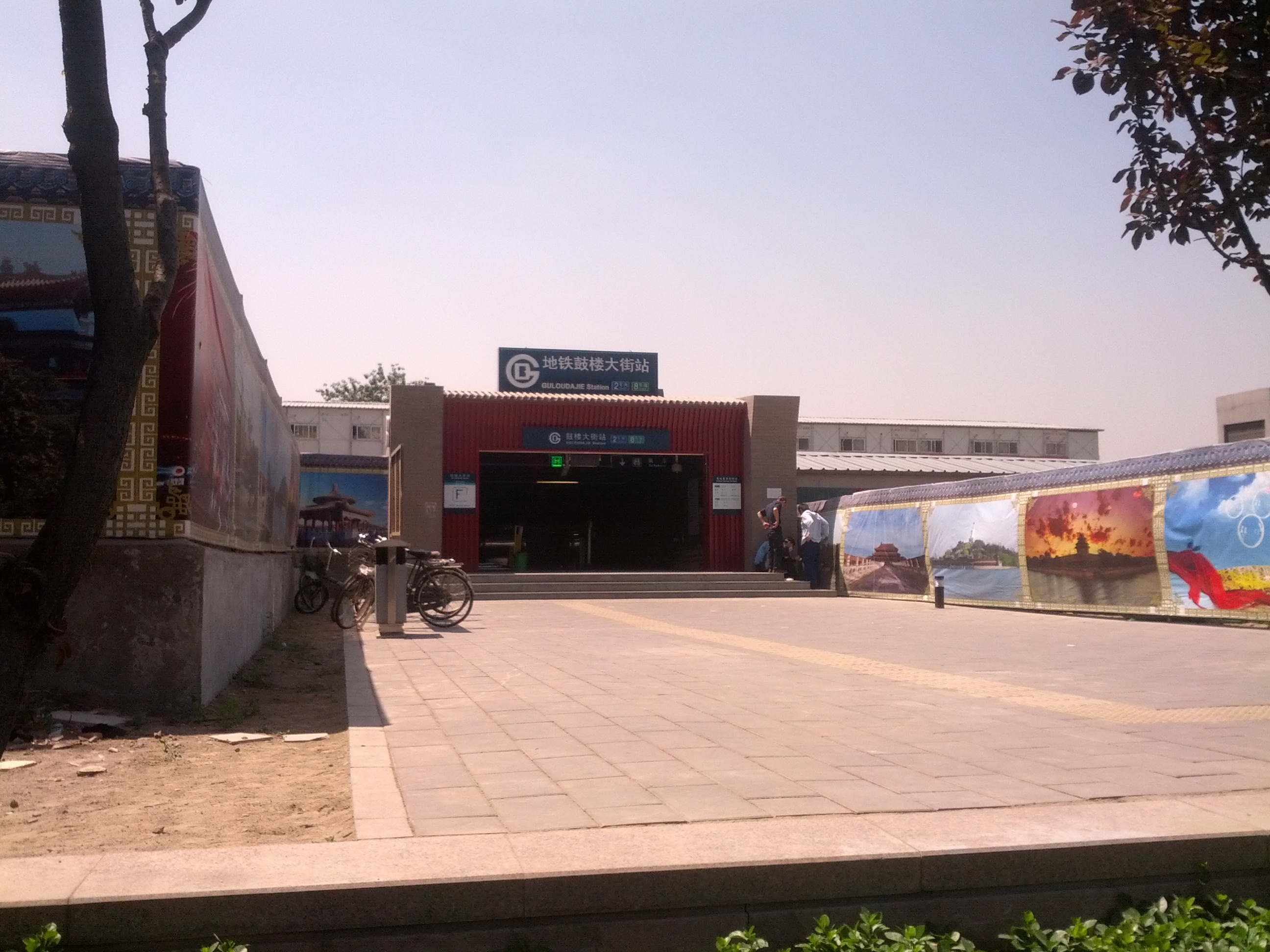 Guloudajie Station, Exit F (Line 2 and Line 8), Beijing Subway